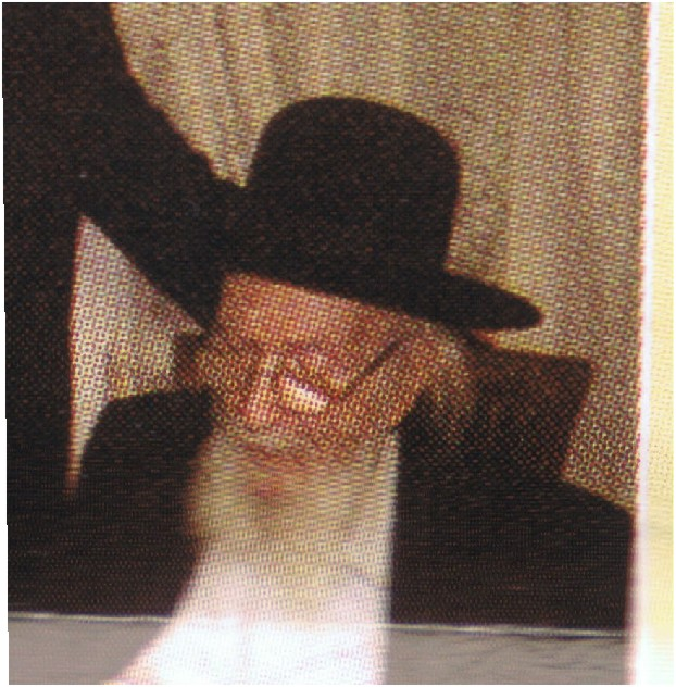 Rabbi Yehiel Michel Lefkowitz, a close discipal of the Hason Ish.